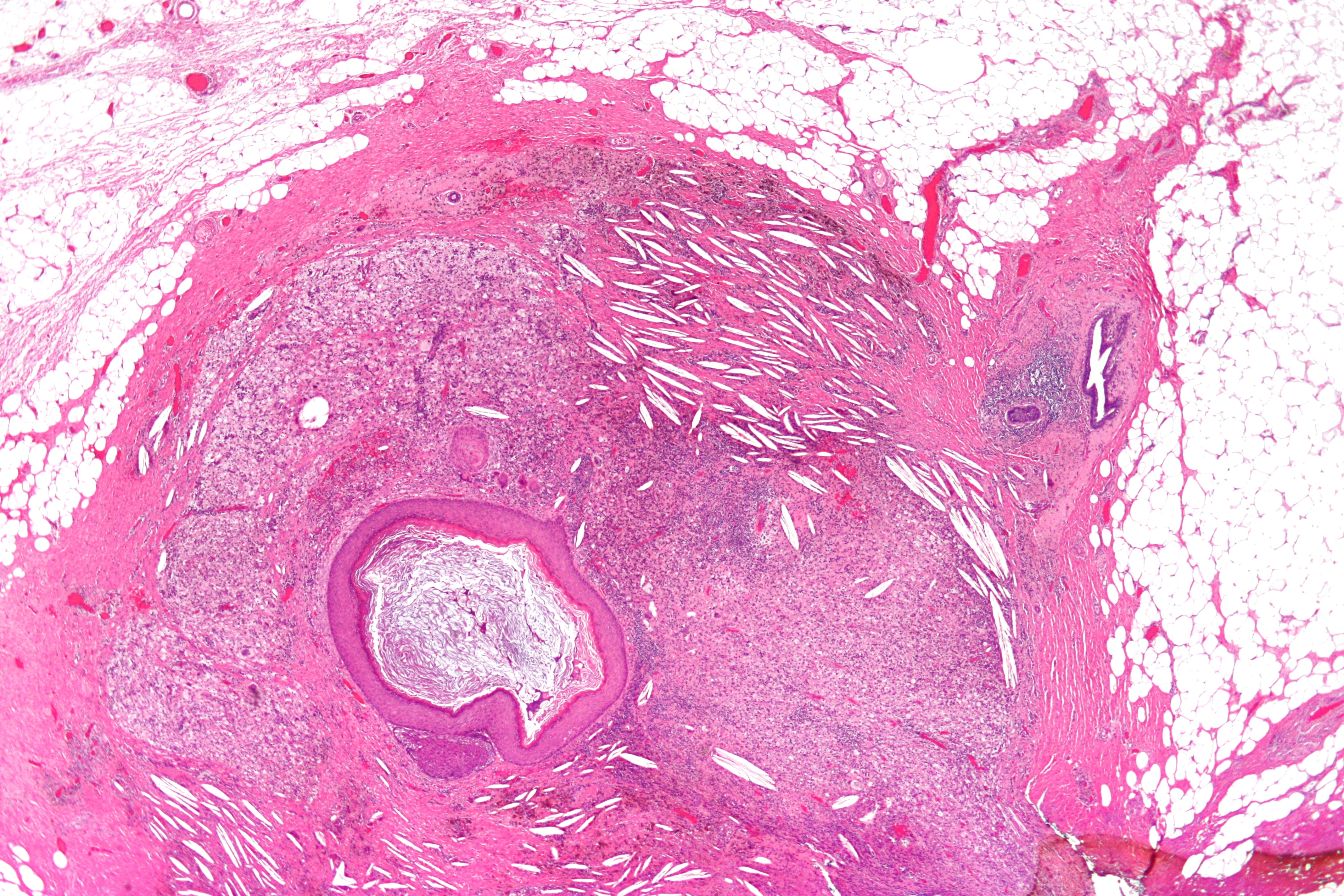 Very low / Low / Intermediate magnification micrograph of squamous metaplasia of the lactiferous ducts, abbreviated SMOLD. H&E stain. Related images Very low mag. Low mag. Intermed. mag.